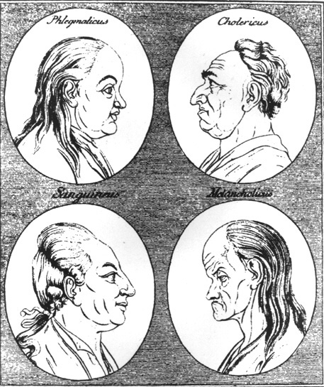 Image of woodcut from Physiognomische Fragmente zur Beförderung der Menschenkenntnis und Menschenliebe (1775-1778) by Johann Kaspar Lavater. Phlegmatic and choleric (above), sanguine and melancholic (below)